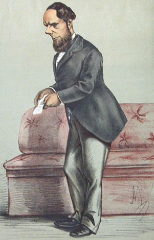 Caricature of John Wodehouse, 1st Earl of Kimberley. Caption reads "He improves, if possible, but he accepts always the accomplished fact".